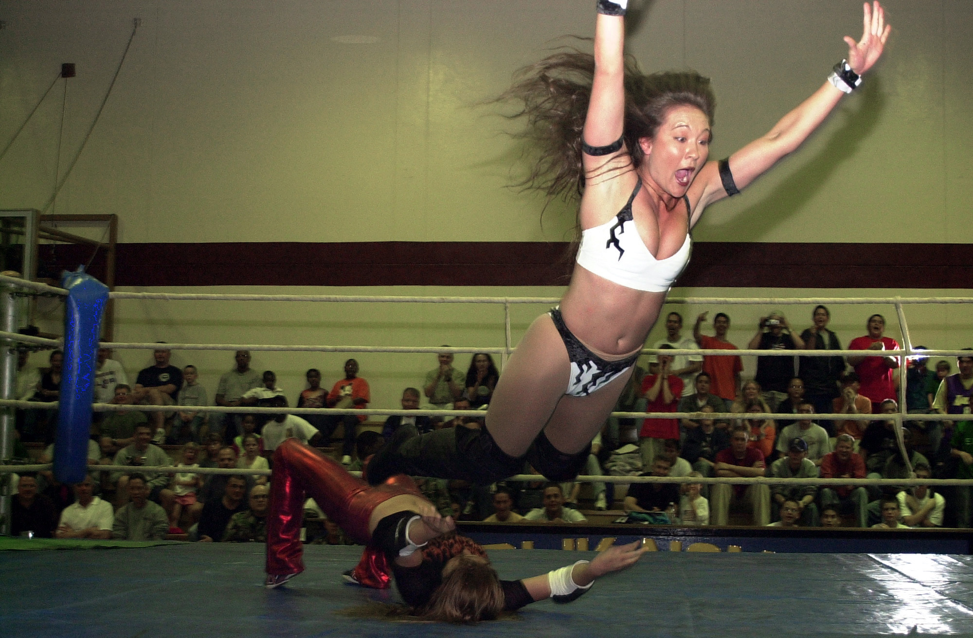 Professional wrestler "Valentina" throws Malia Hosaka to the other side of the ring during a World Wrestling Alliance event held at Incirlik Air Base, Turkey, sponsored by Armed Forces Entertainment (AFE).